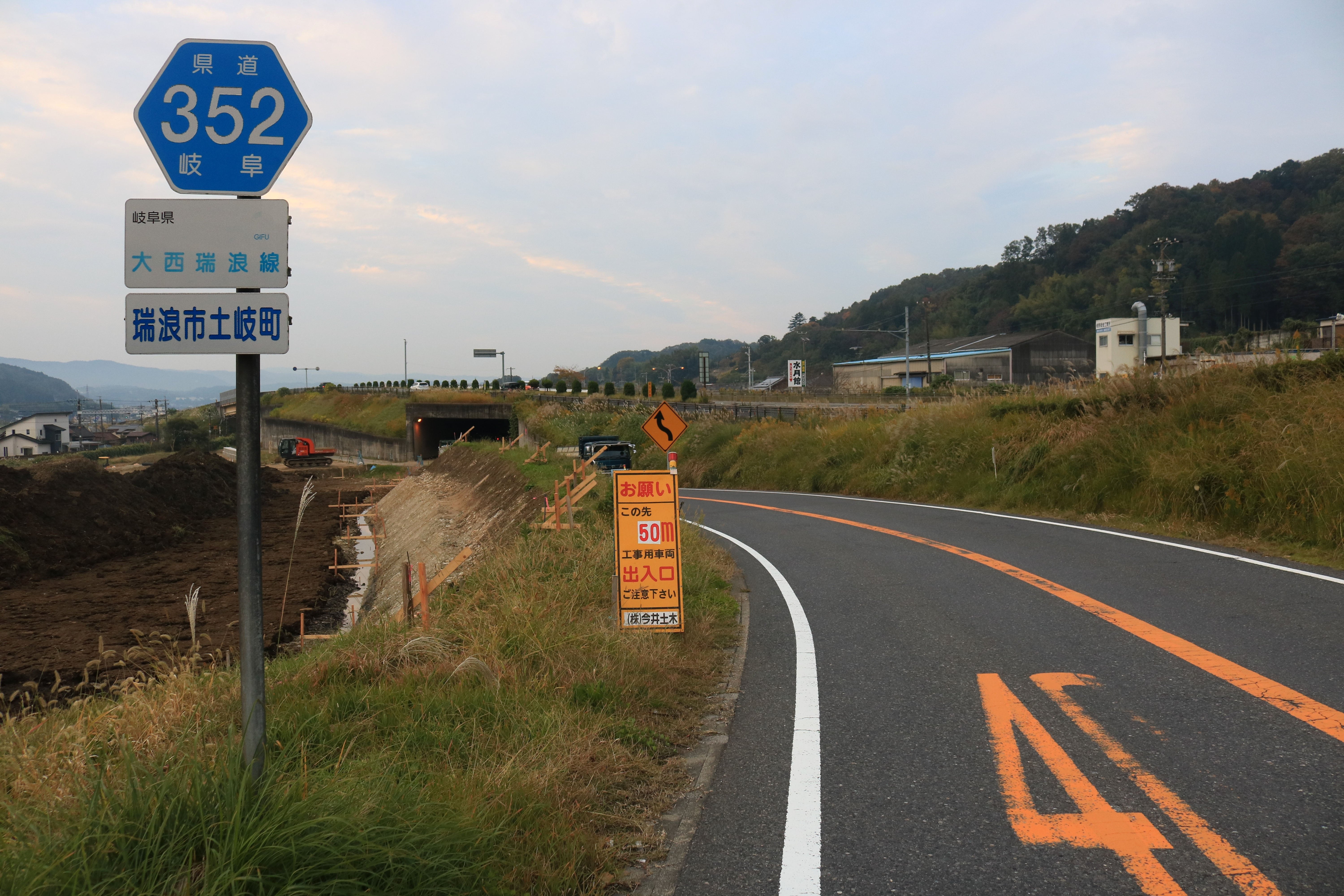 Gifu Prefectural Road Route 352 (Onishi-Mizunami Line) in Tokicho, Mizunami, Gifu prefecture, Japan.